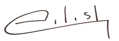 Billie Eilish signature